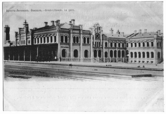 Brest-Litovsk Railway Station. Pre-1917 Empire Postcard. Now in Brest, Belarus. Flickr data on 2011-08-13 Tags: Old picture, Station, Brest, Postcard, Railway, Public Domain License: CC BY-SA 2.0 User: paukrus Ruslan